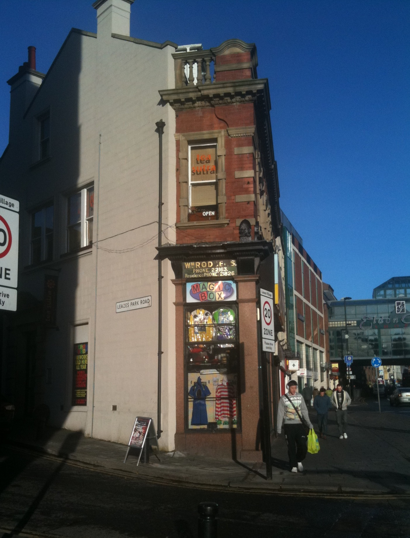 The junction of Leazes Park Road with Percy Street in Newcastle upon Tyne. In 1911, this building housed what would become The People's Theatre (now based in Heaton).